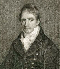 An 1819 print of the writer, composer and theatre manager Charles Dibdin (the younger) by the engraver James Thompson (1788-1850). Published by J. Asperne in 1819, believed out of copyright.